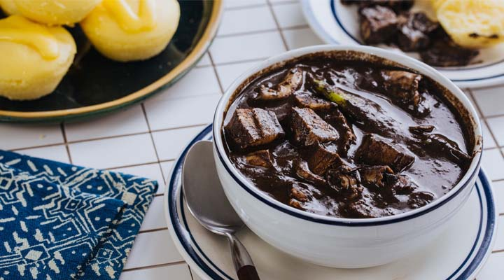 Dinuguan served with Puto (Filipino rice cake) for lunch.